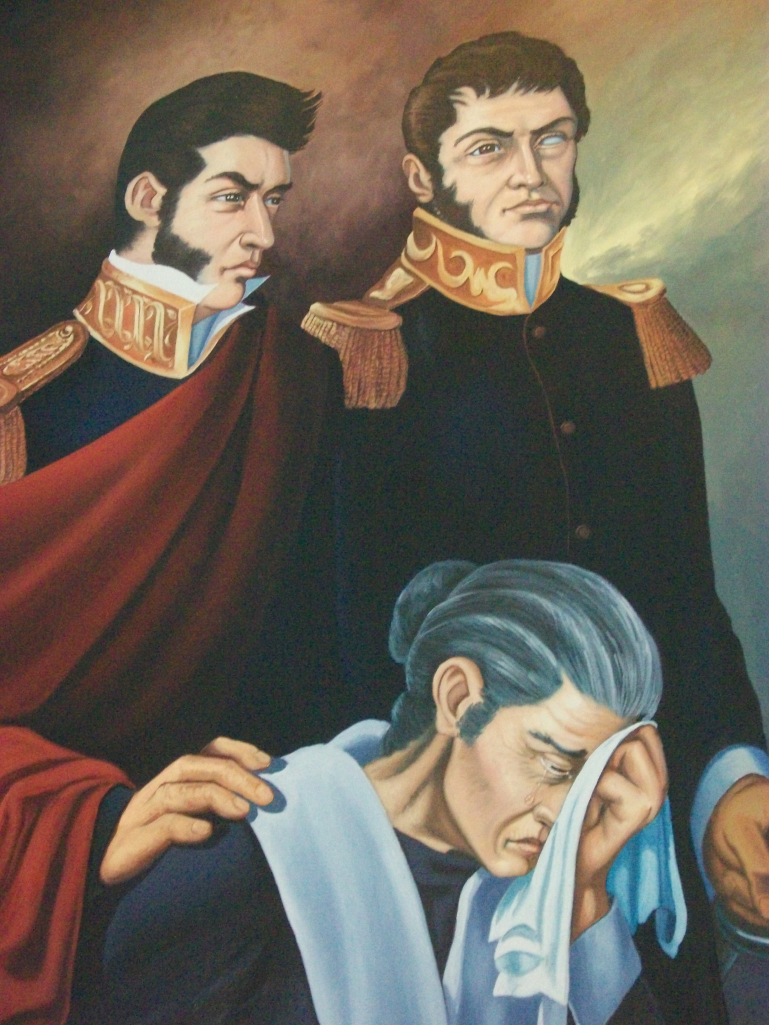 Rayon family oil painting elaborated by Miguel G. Hernández. Lopez Rayon Bros. Museum in Tlalpujahua, Michoacán, México.